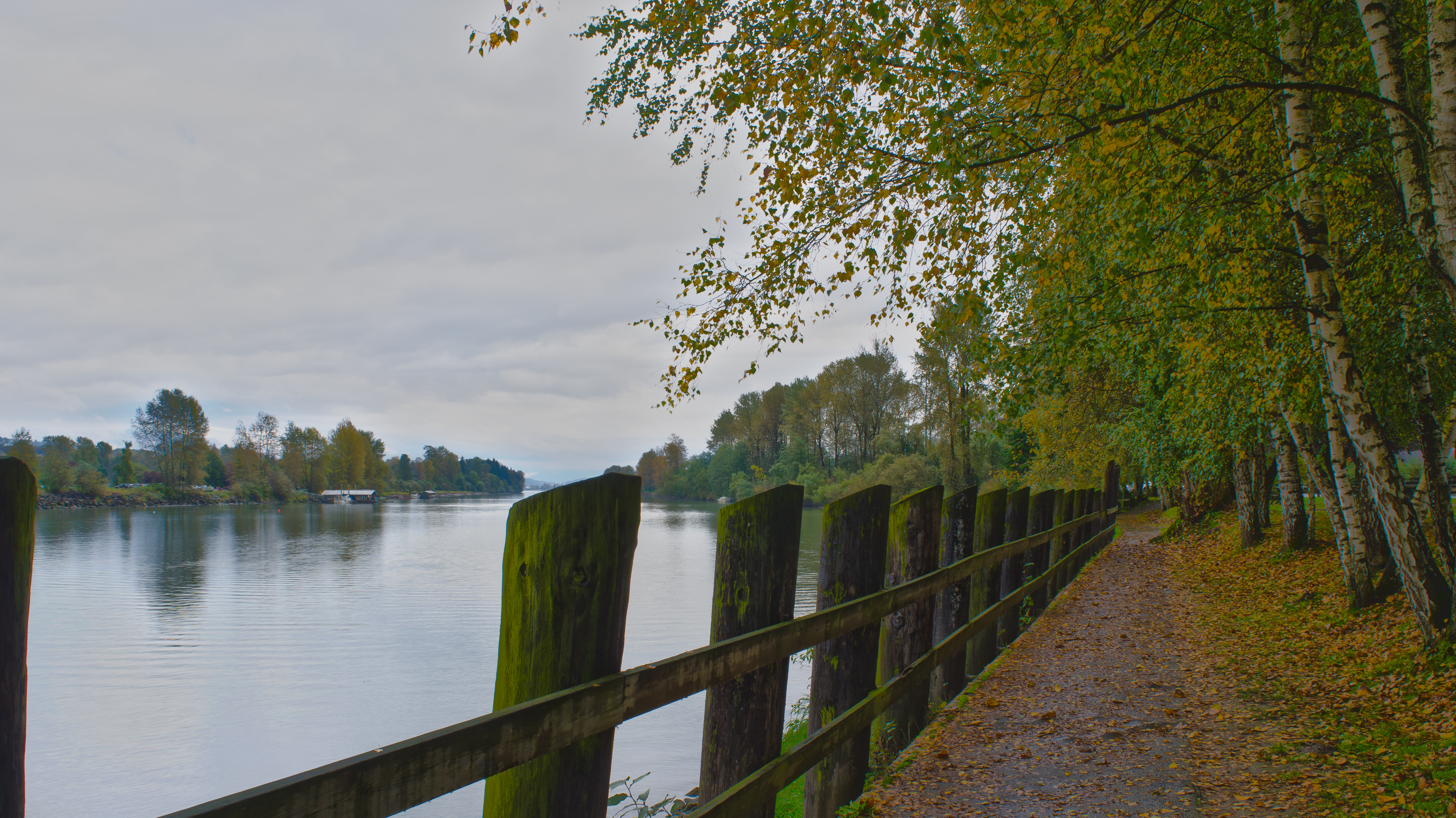 View of Bedford Channel from Fort Langley, British Columbia, Canada.